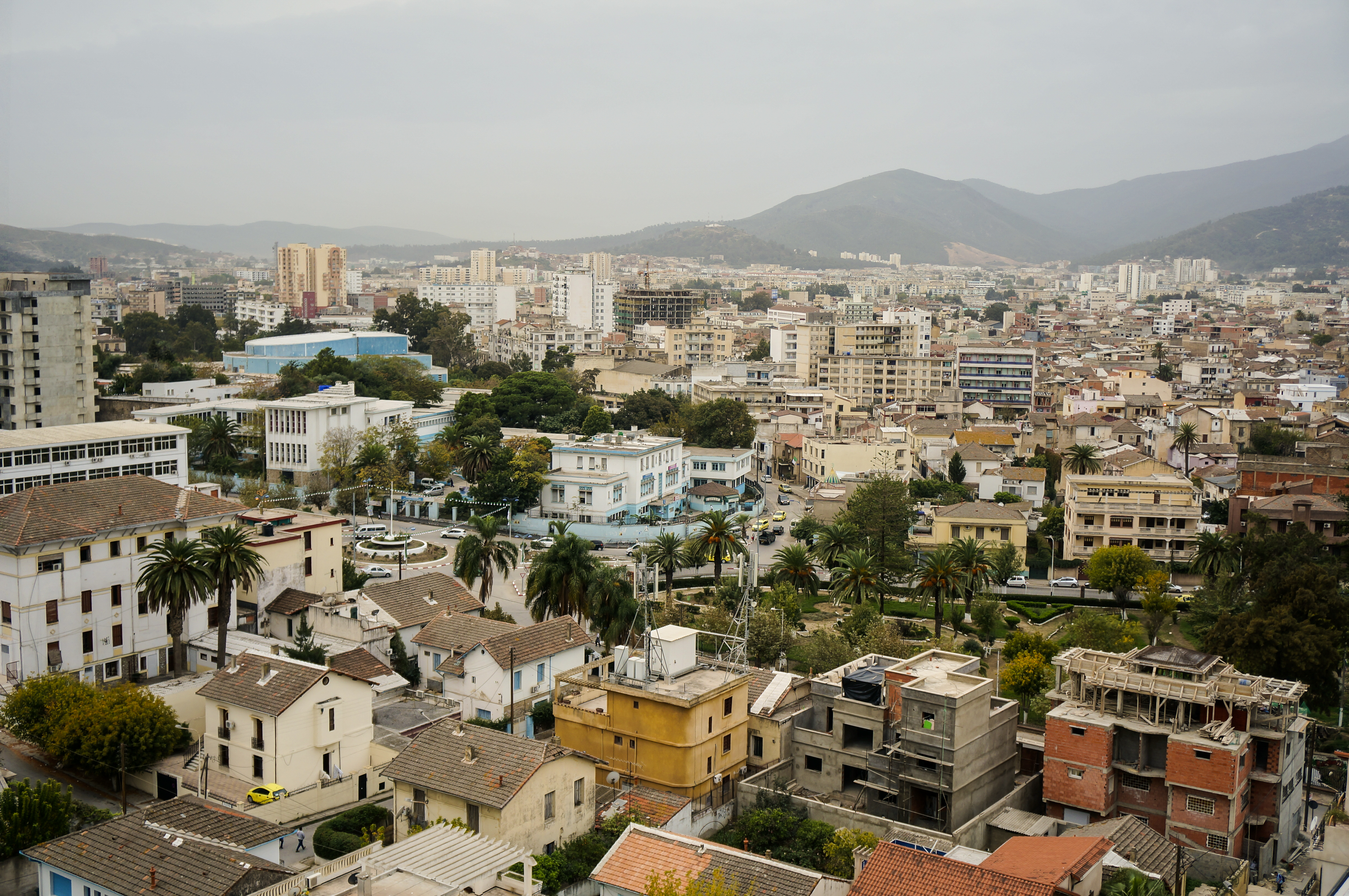 Annaba